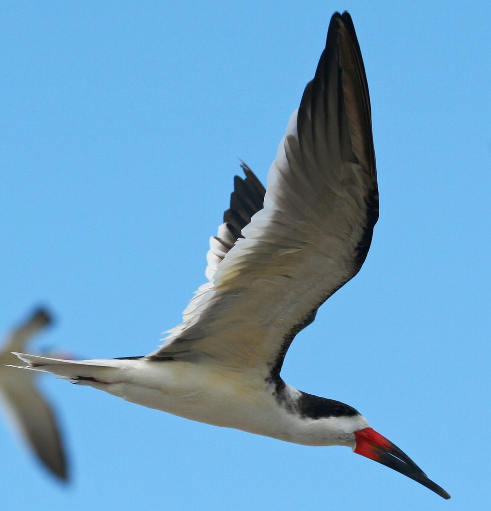 I get close to the skimmers, and this is what they do. Taken on a blustery day by Florida standards, in Tarpon Springs.